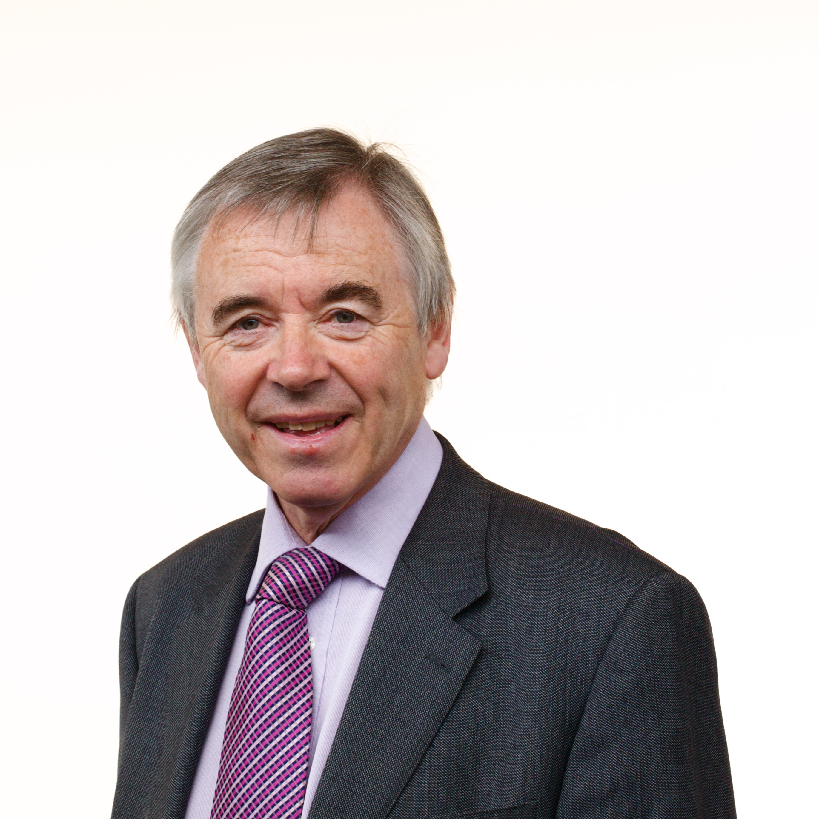 Ieuan Wyn Jones AM, member of the National Assembly for Wales.